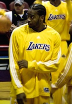 This file has been extracted from another file: Lakers warming up.jpg